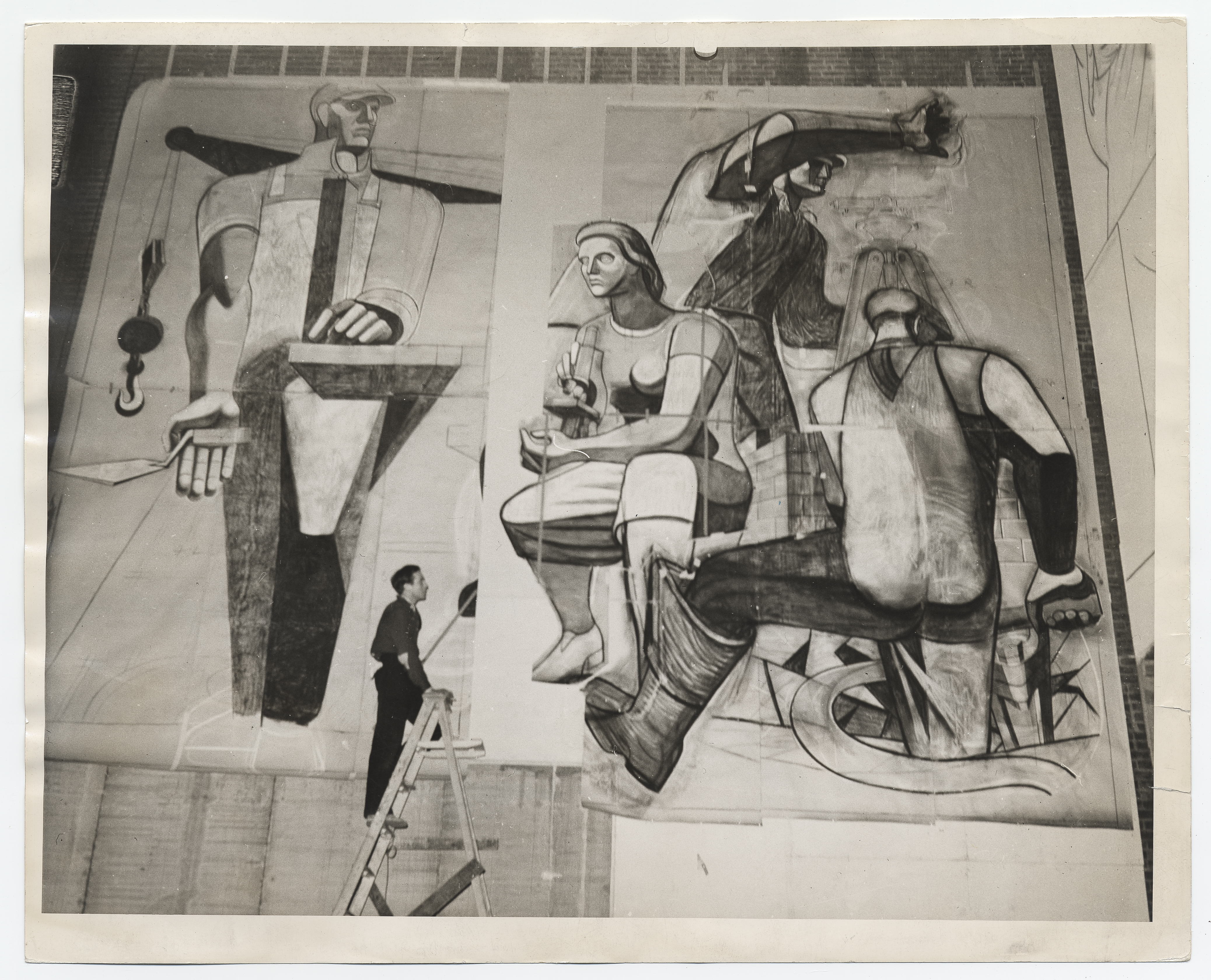 Guston sketching a mural for the WPA Federal Art Project.Identification on verso (handwritten and stamped): Federal Art Project W.P.A.; Photographic Division; 110 King Street; New York CityNegative No.: 3563-G; Date: 2-15-39; Photographer: Robbins; Artist: Philip Guston; Process of sketching a Mural; Location: 531 Grand Ave, Bklyn; World's Fair.